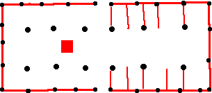 Ground plane of house from the Roman Iron Age of Northern Europe (year 200-400)